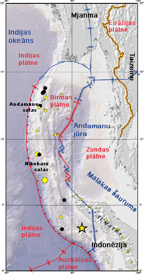 The Burma Plate, showing boundaries with the India Plate (the Sunda Trench) and the Sunda Plate (through the Andaman Sea)